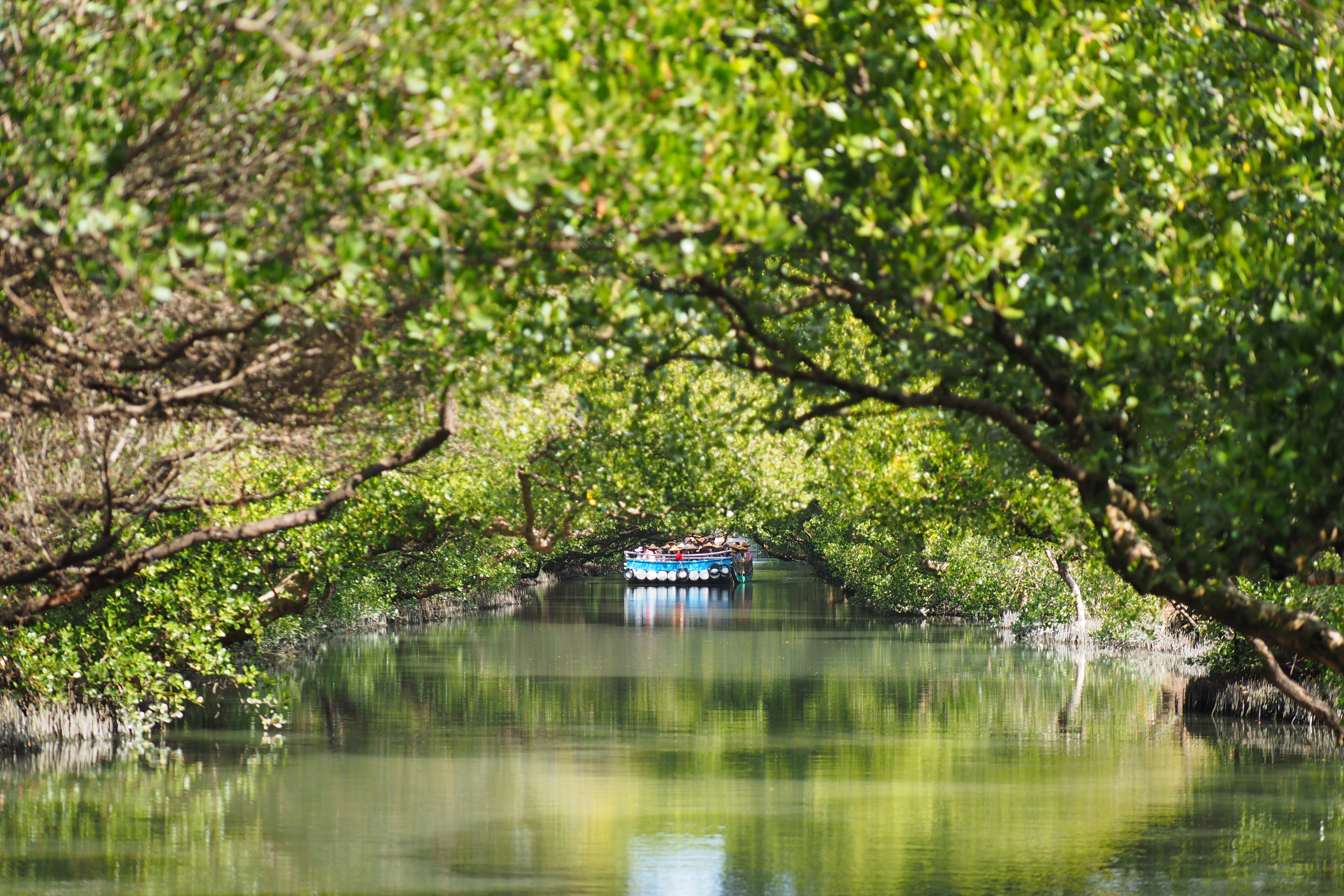 The green tunnel of mangrove in Sihchao(四草), Tainan, Taiwan; in the area of planningTaijiang National Park.